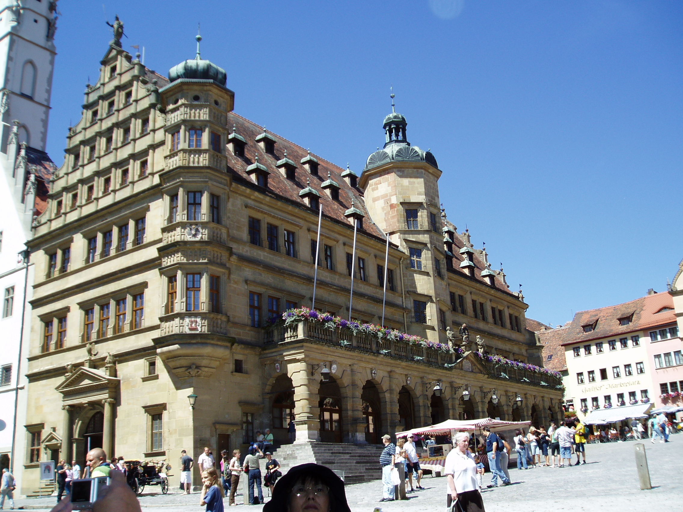 Rotenburg city hall